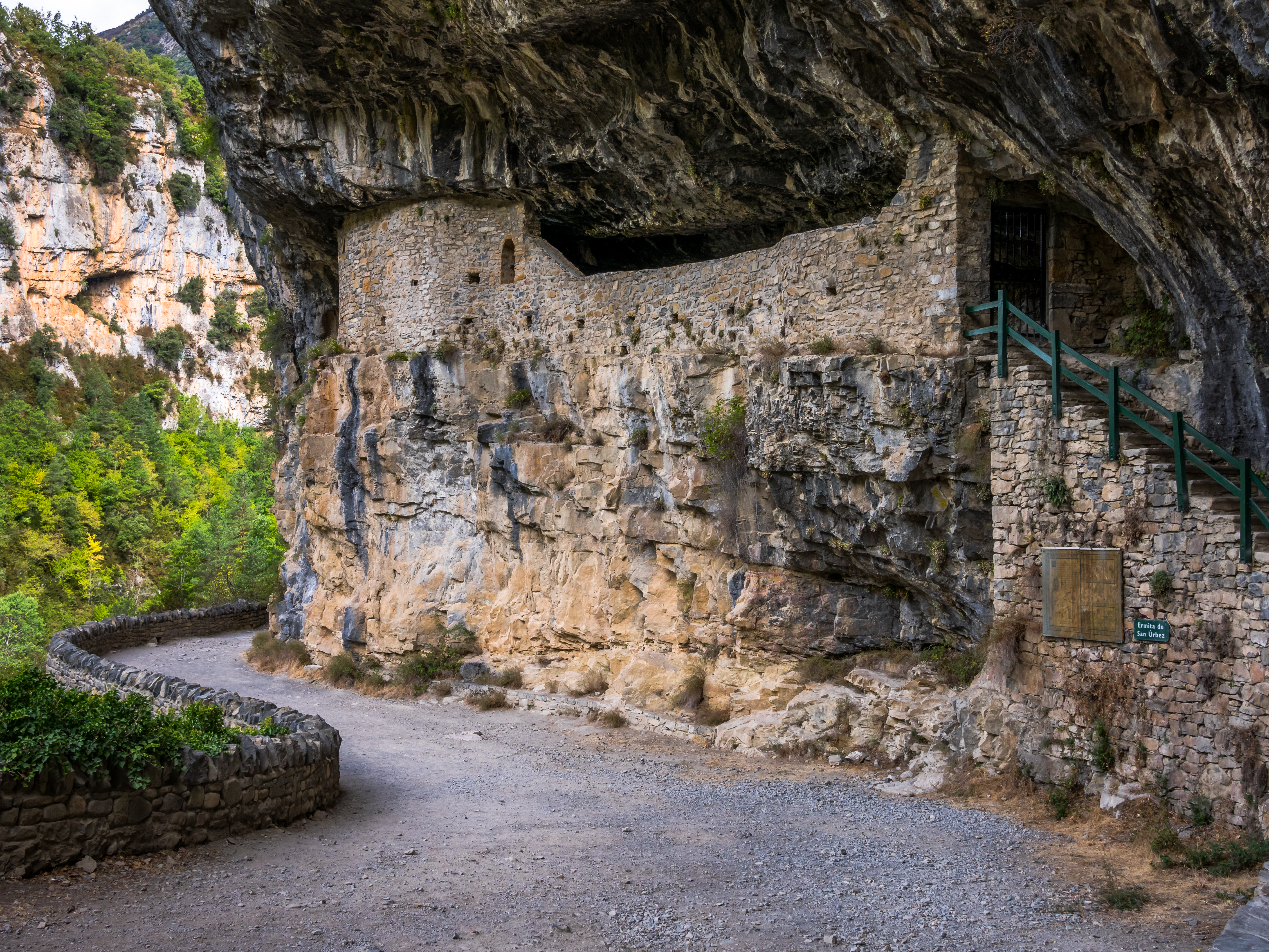 San Úrbez chapel in the Añisclo Canyon. Sobrarbe, Huesca, Aragon, Spain